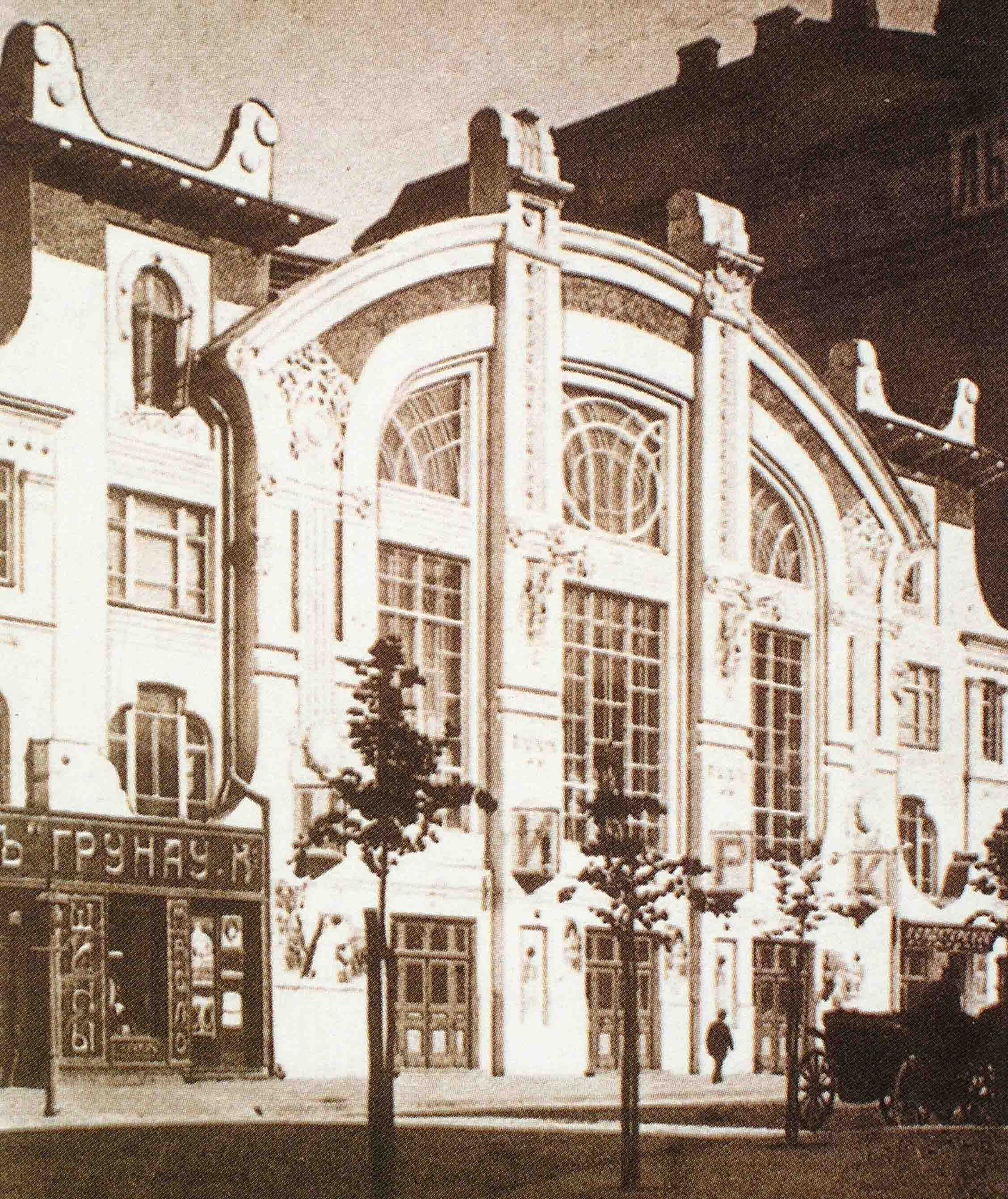 Krutikov circus, Kyiv. Destroyed 1941